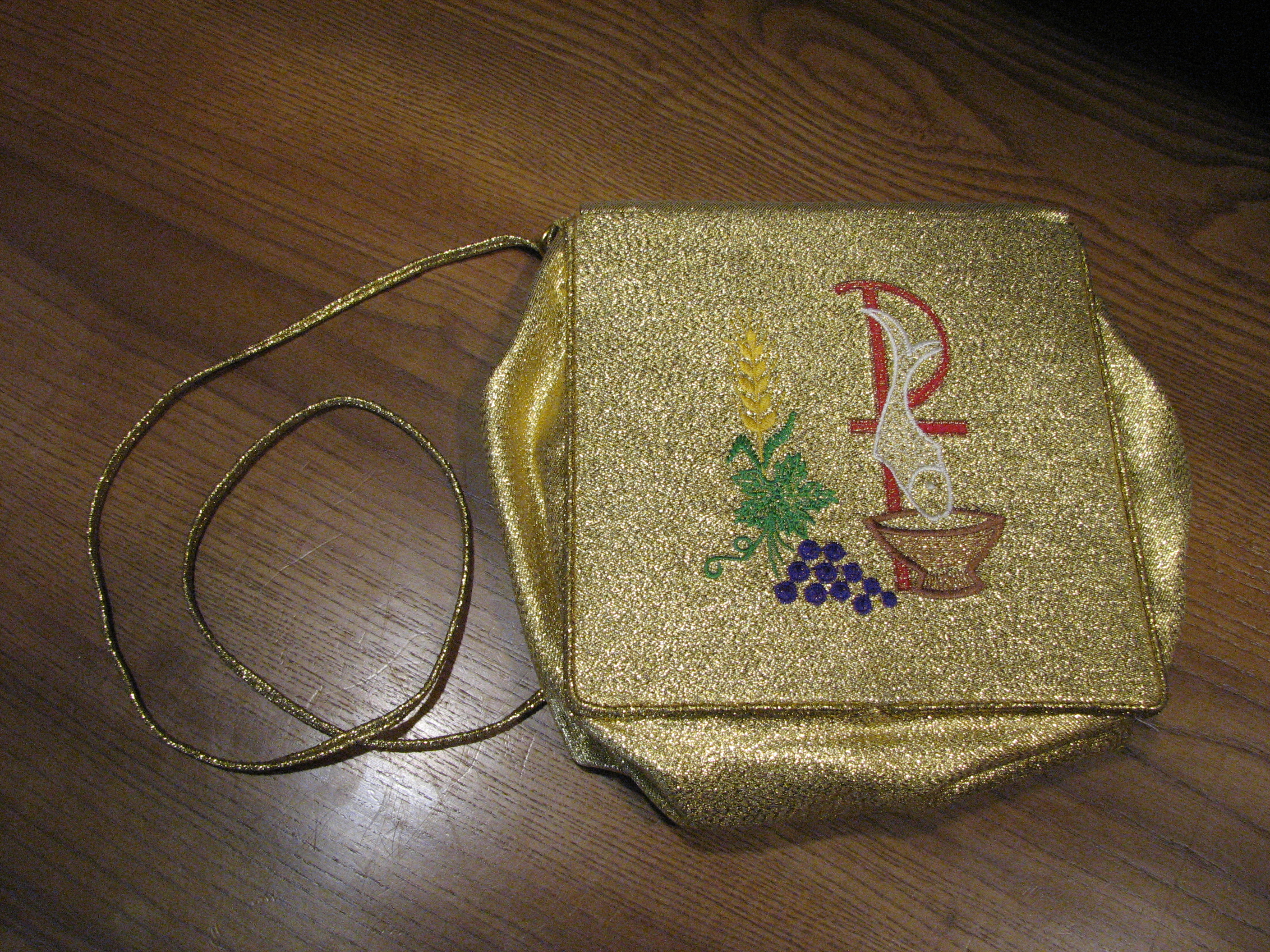 Burse (Bursa) to carry Holy Communion to the patient's home or hospital rooms